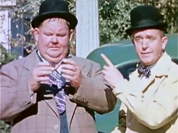 Laurel and Hardy in a still from the short film "The Tree in a Test Tube", time code: 02:04 (format: minutes:seconds)